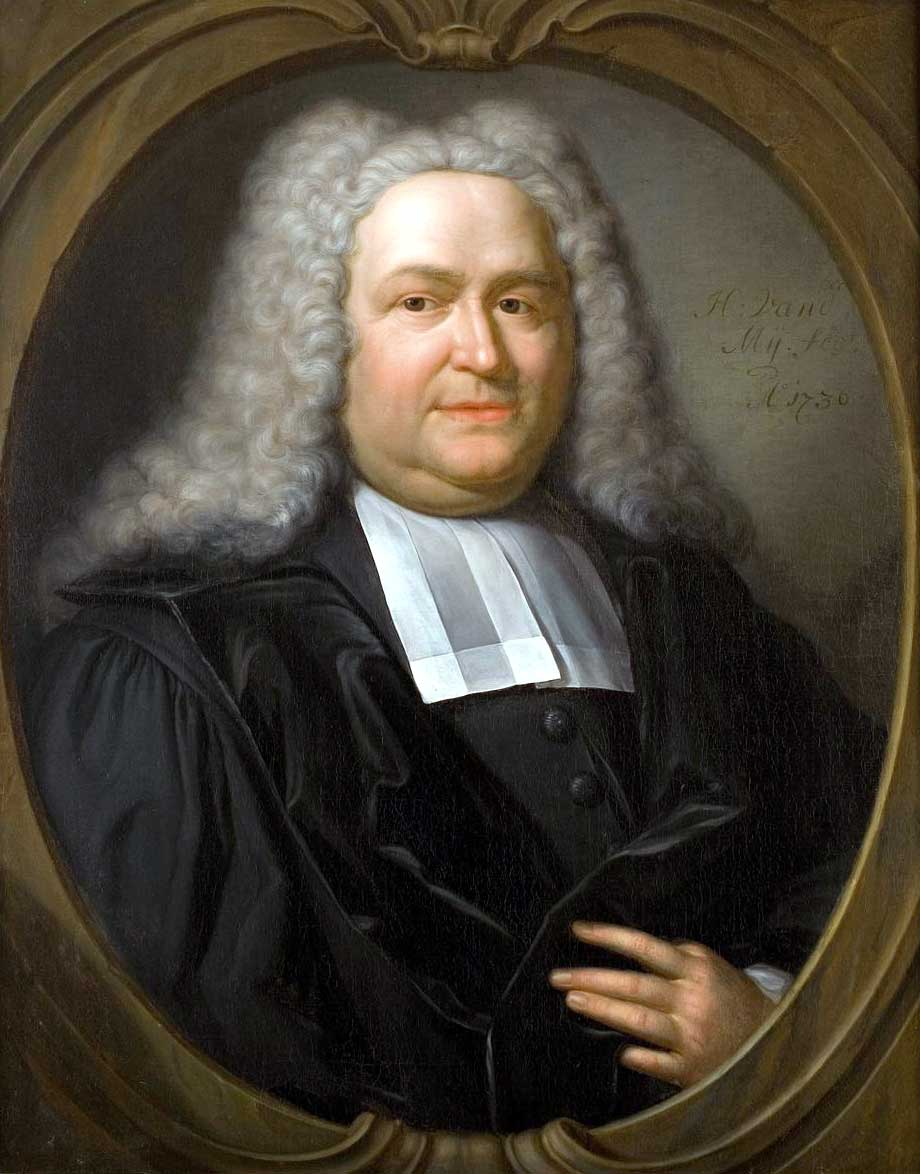 Albert Schultens (1686-1750) Dutch Reformed theologian and orientalist